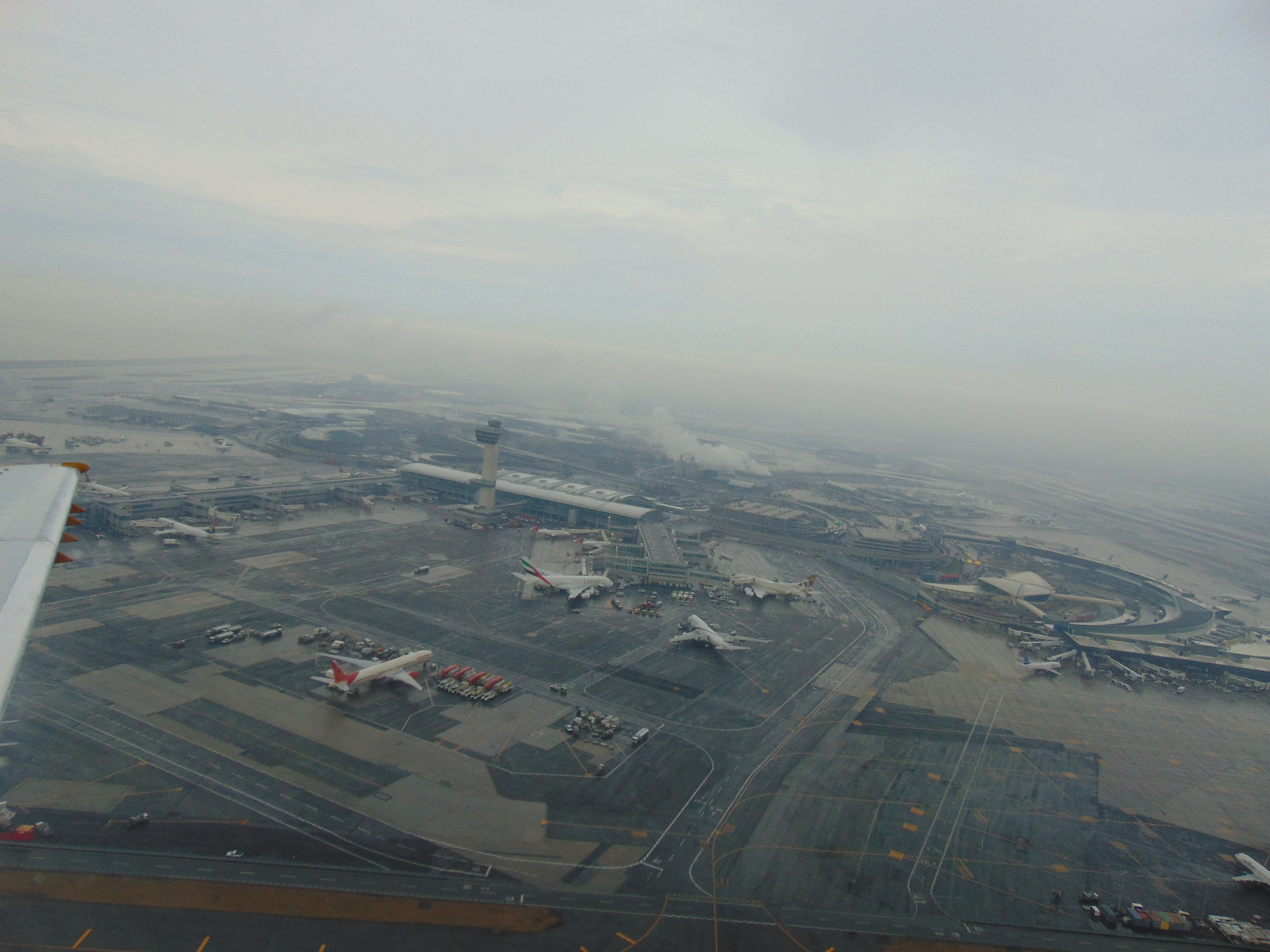 JFK airport- February 2017